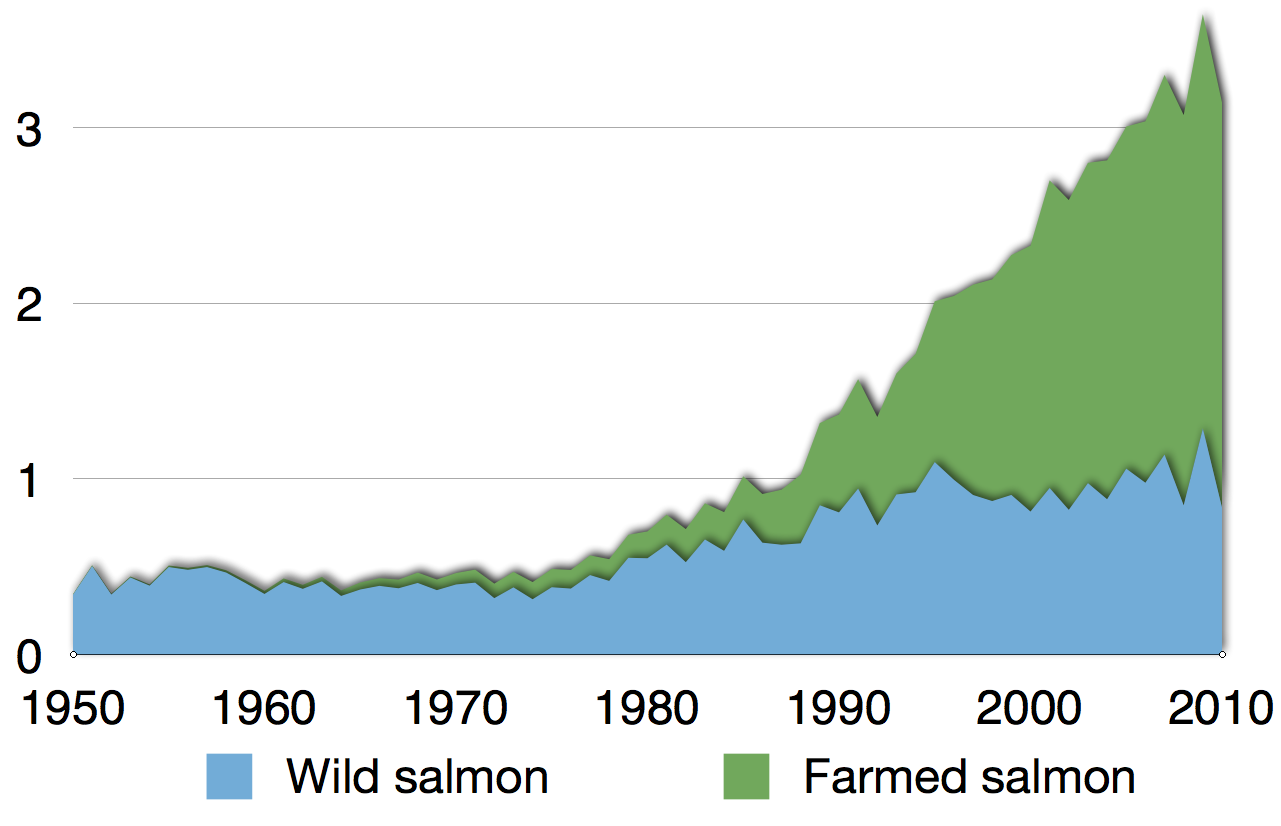 Global commercial production of all salmon species in millions of tonnes, 1950–2010, as reported by the FAO. Based on data sourced from the relevant FAO Species Fact Sheets